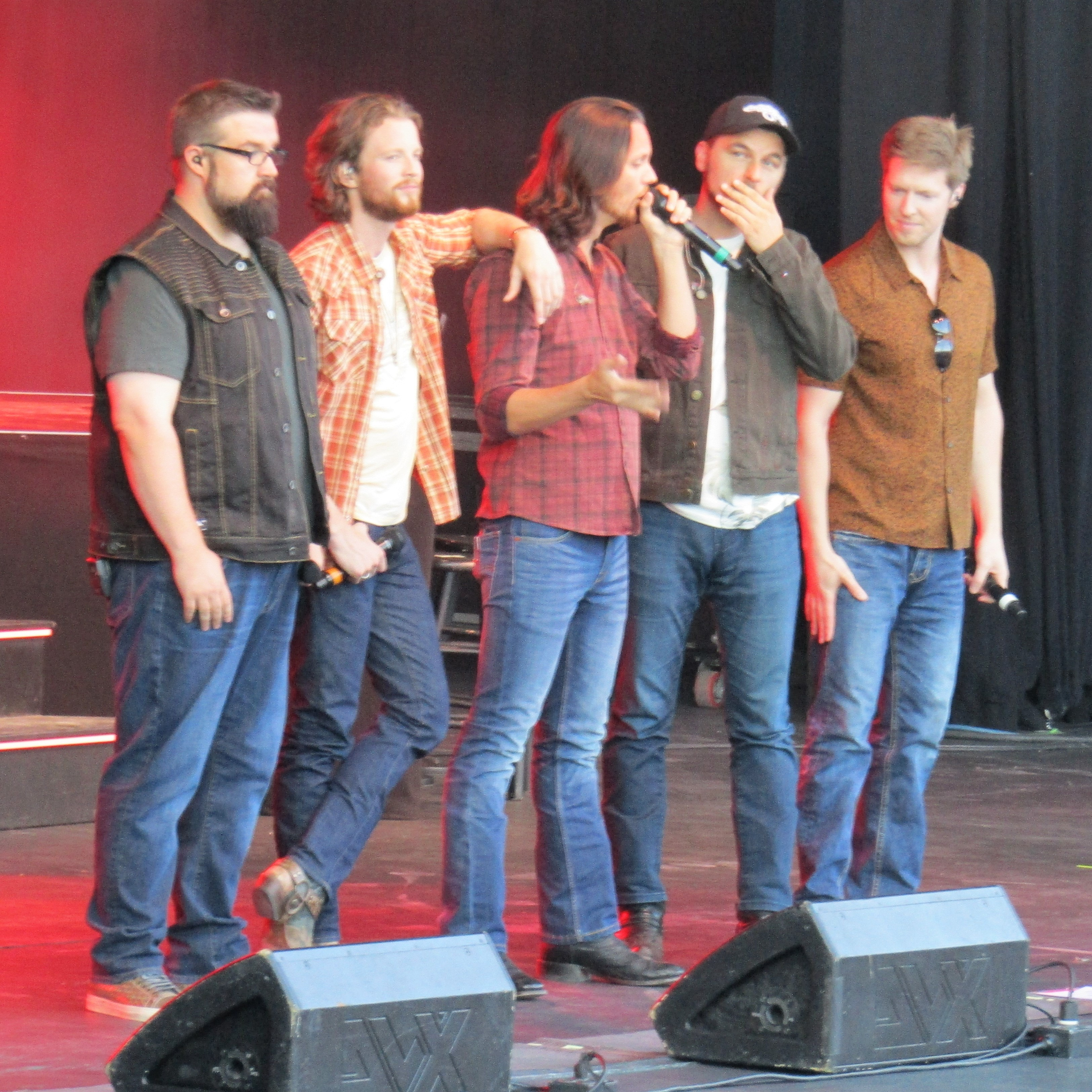 Home Free performing at a concert in the Sandy Amphitheater.